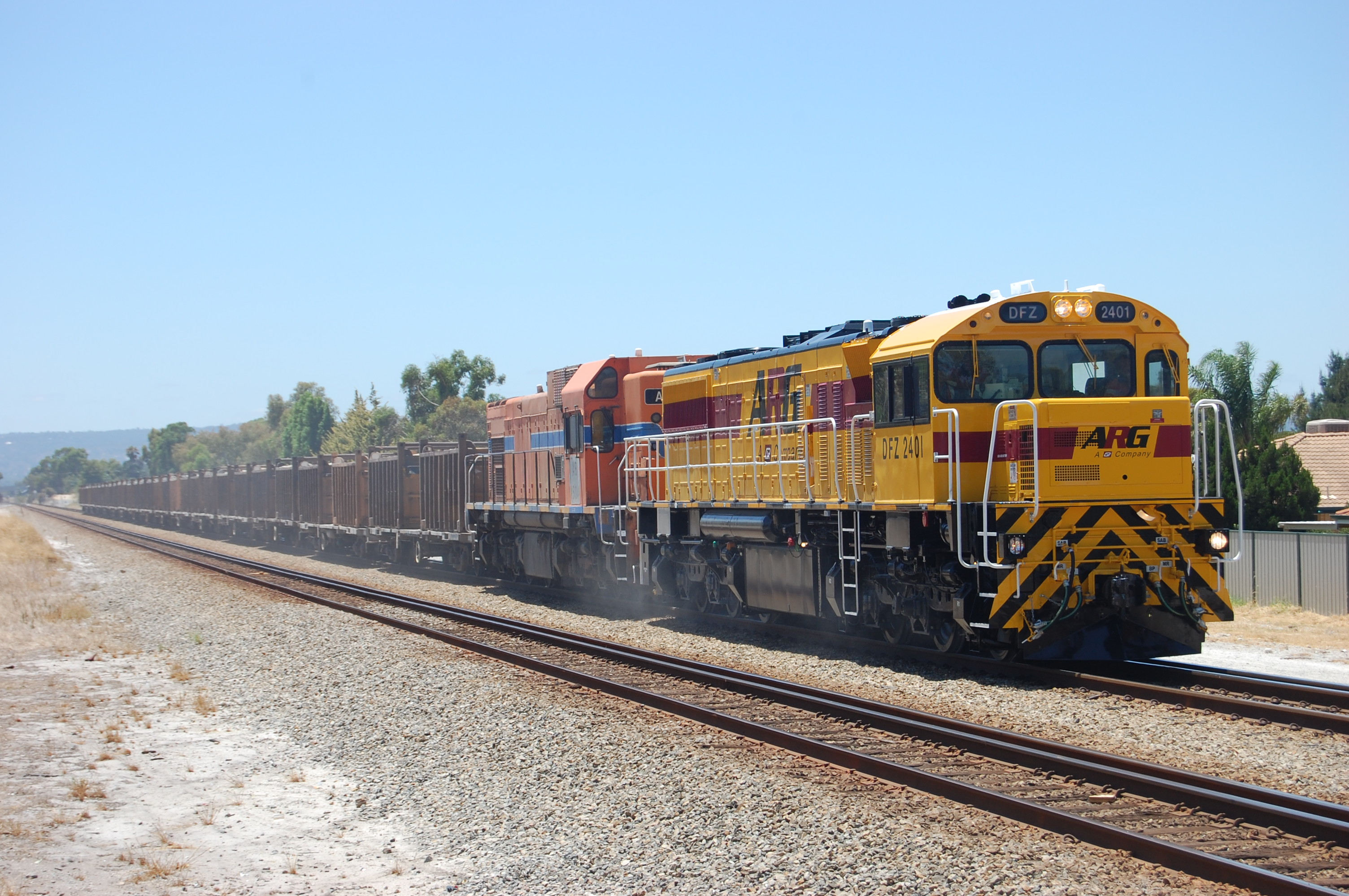 Australian Railroad Group DFZ2401 locomotive in Thornile, Western Australia.